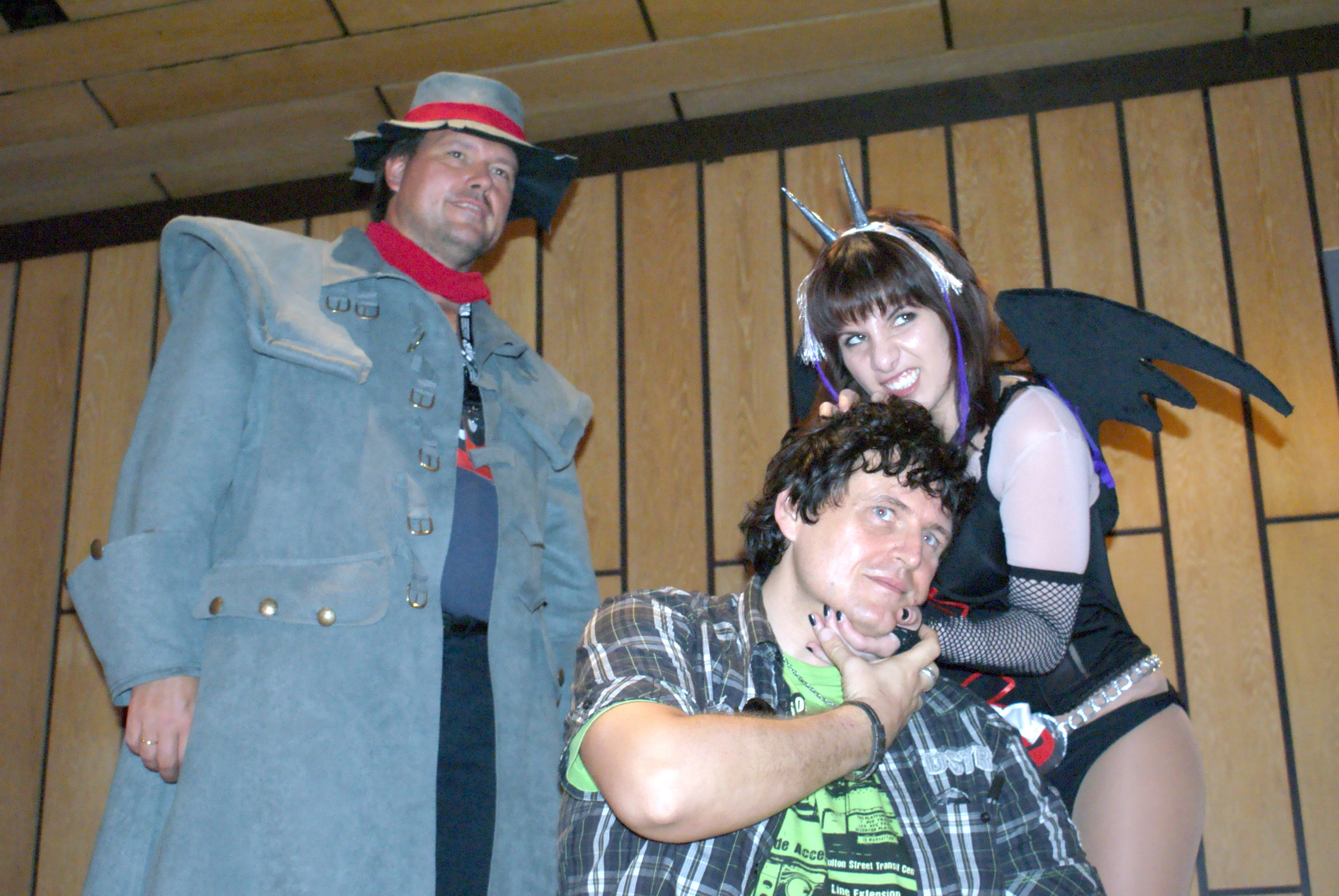 german comicartist Tikwa with two cosplayer from Die kleine Gruftschlampe made on Comic-Salon_Erlangen 2010 persons on picture are ok with distribution